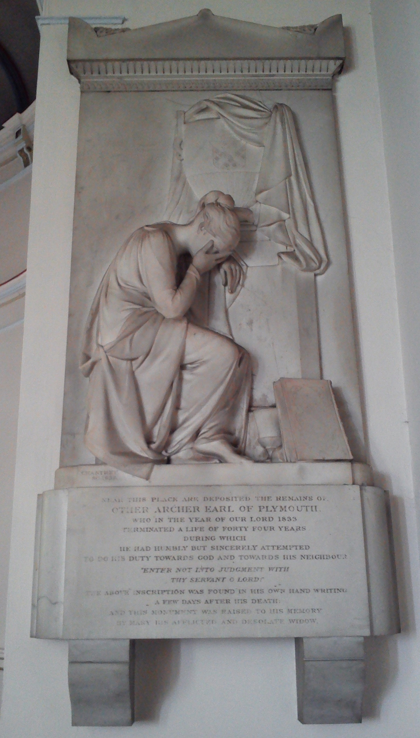 Tardebigge, Worcs: St Bartholomew's Church, memorial on the chancel wall to Other Archer Windsor, 6th Earl of Plymouth (1789–1833)